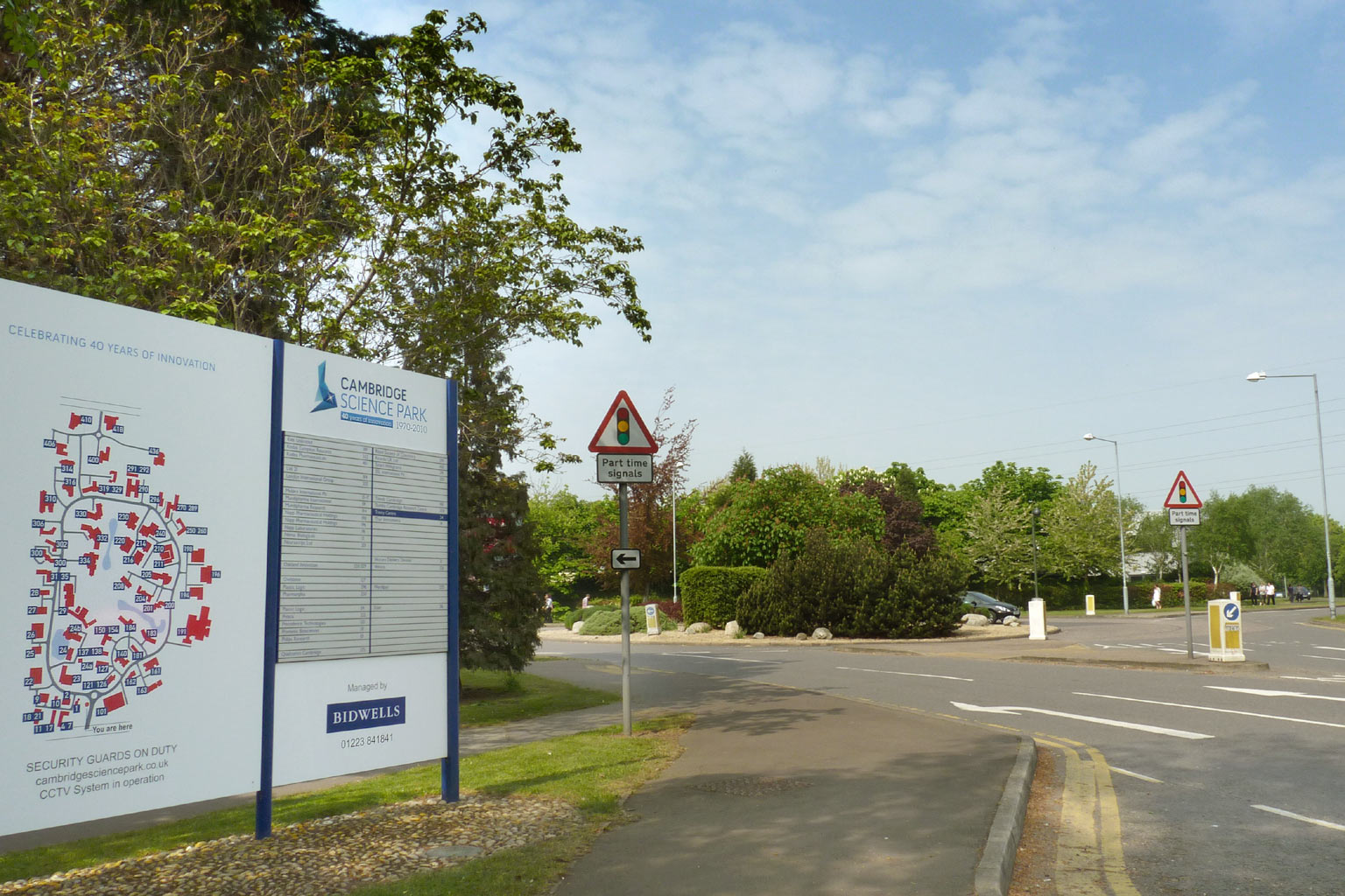 Cambridge Science Park main entrance in April 2011. This image has high dynamic range.